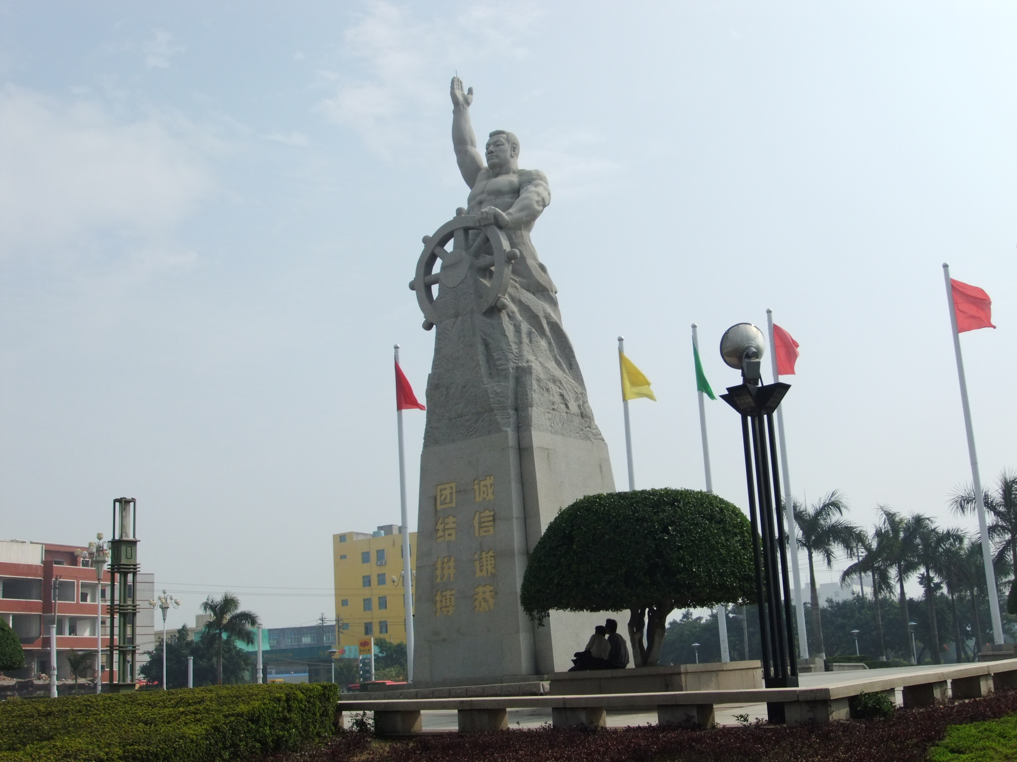 Jinjiang City's Lüzhou (Green Island) Park. The monument bears the inscription "诚信、谦恭、团结、拼搏" (Integrity, humility, unity, hard work).